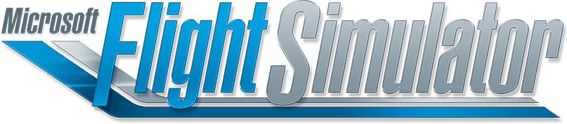 Official logo of Microsoft Flight Simulator (2020)